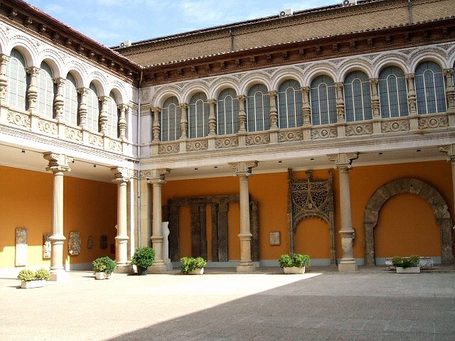 Patio del Museo de Zaragoza (Zaragoza, España)